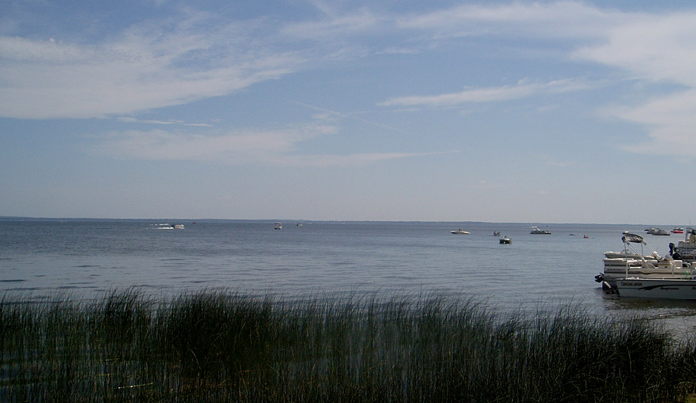 Houghton Lake in Roscommon, Michigan, seen from M55.